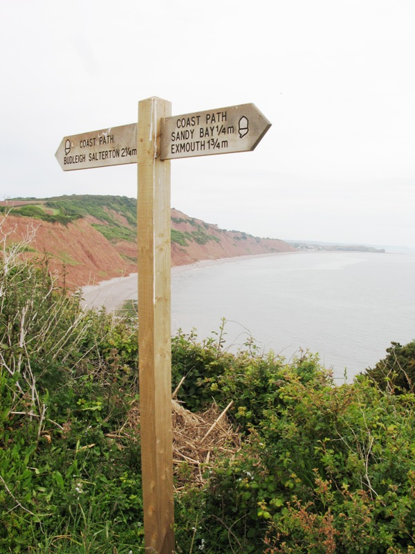 A finger post at Littleham Cove (west of Exmouth, Devon) points towards Budleigh Salterton on the South West Coast Path in England. This section of the Path follows the Jurassic Coast, a World Heritage Site for the geology exposed in its cliffs.